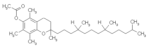 The acetate ester of alpha-tocopherol. This is a stabilised form of vitamin E commonly found in dietary supplements.